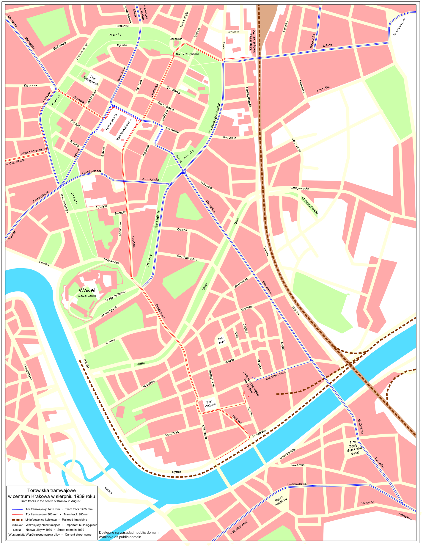 Tram network in the centre of Kraków in August 1939. Track layout was reconstructed from photos and archive maps. Warning: this is a PNG version with correctly rendered text. An editable Inkscape SVG version is available here: Krakow tram network 1939.svg